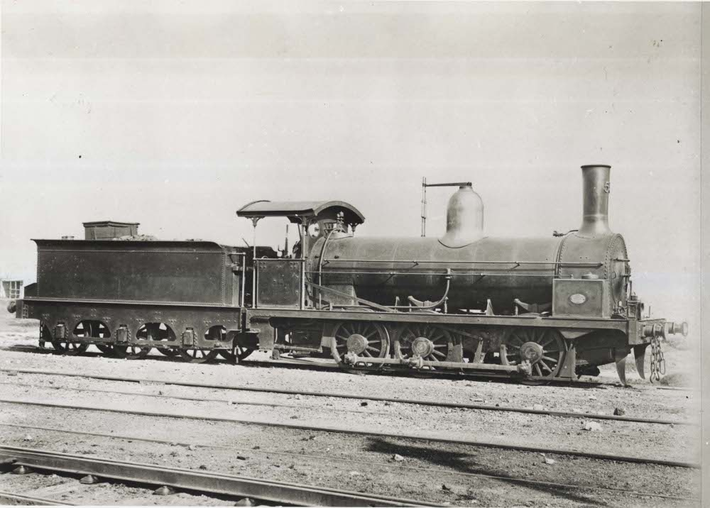 Class 48 (Second), later class I(48) locomotive No. 55 Dated: c.1880 Digital ID: 17420_a014_a014000345 Rights: We'd love to hear from you if you use our photos/documents. Many other photos in our collection are available to view and browse on our website using Photo Investigator.